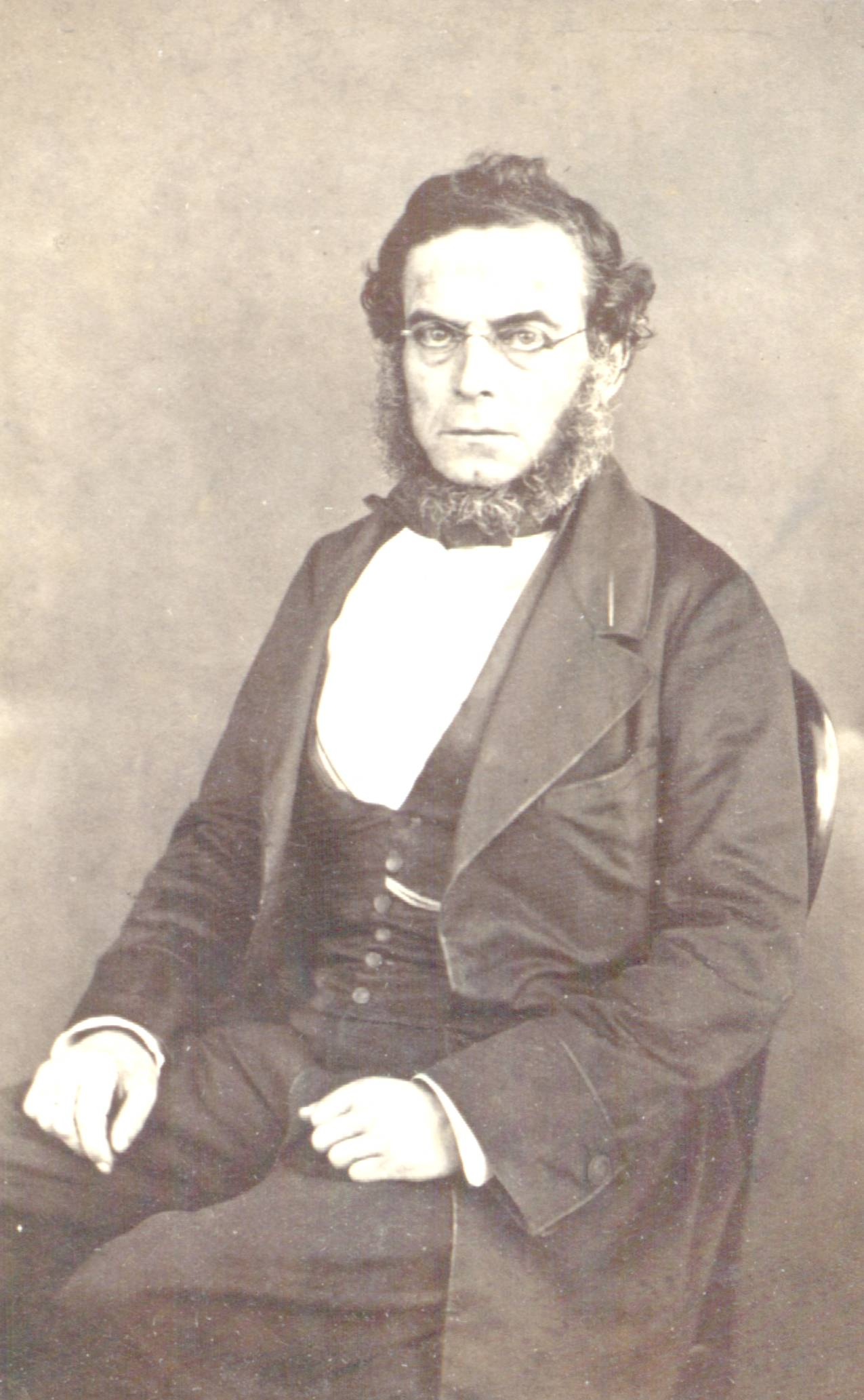 Swiss writer and politician Franz Krutter (1807-1873, from Solothurn). Photo from 1857.